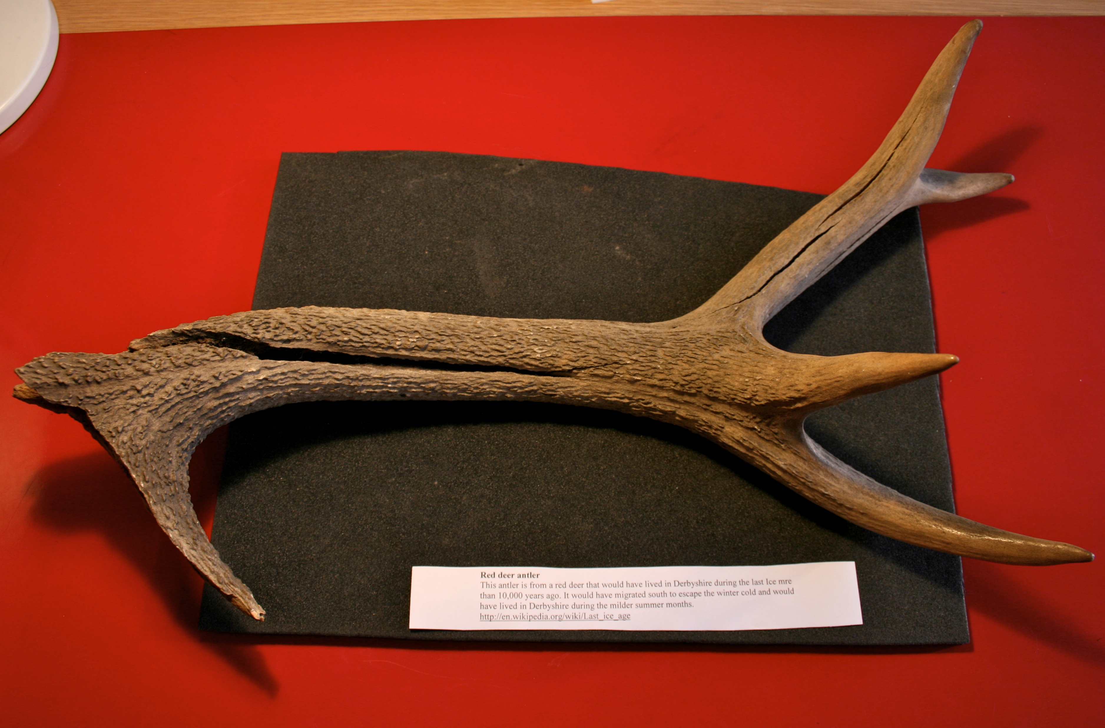 This antler is from a red deer that would have lived in Derbyshire during the last Ice Age more than 10,000 years ago.